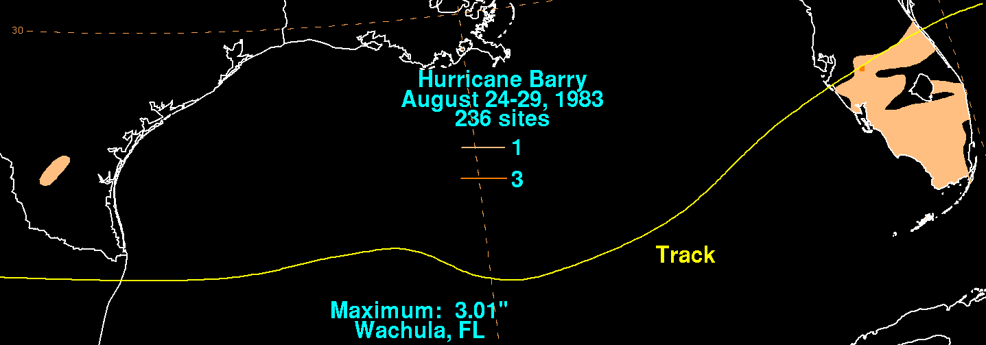 Storm total rainfall map of Hurricane Barry during August 1983.